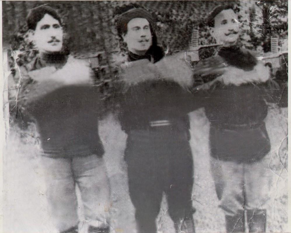 Aleksandre (Atsandre) Kvergelidze, Simona Dolidze, Khomeriki